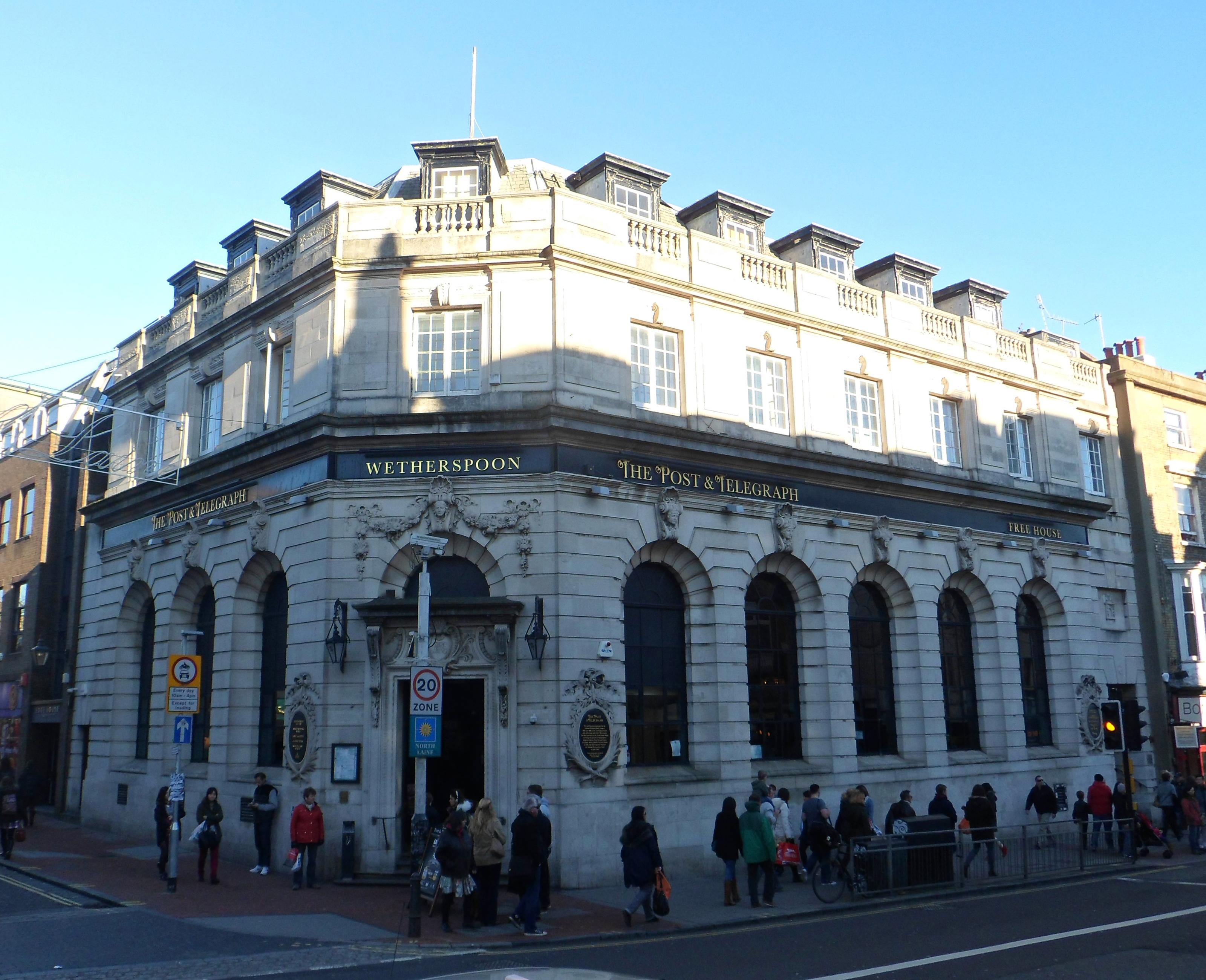 Former National Provincial Bank branch, 155–158 North Street, Brighton, City of Brighton and Hove, England. Designed in the Louis XVI style by Clayton & Black in 1923. Now a pub. Listed at Grade II by English Heritage (IoE Code 480944)